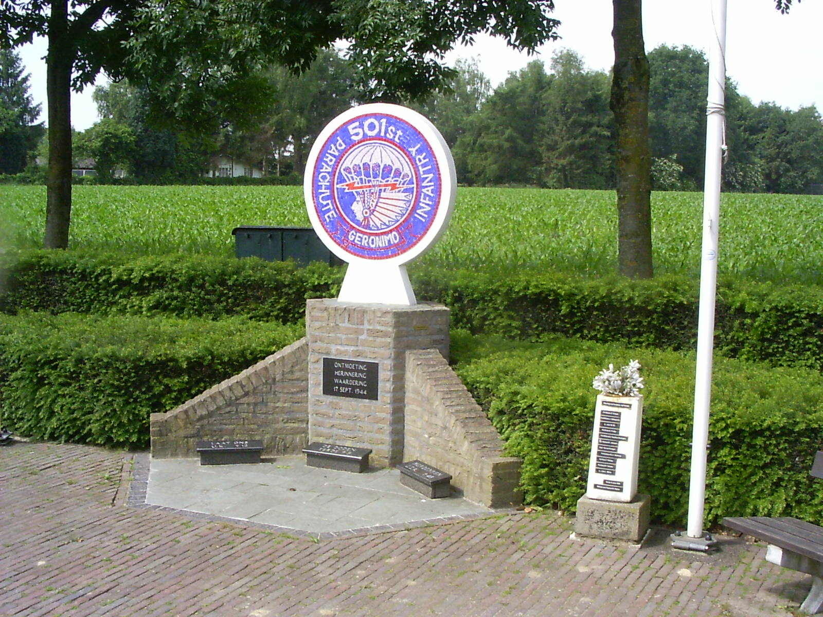 Airborne memorial Eerde